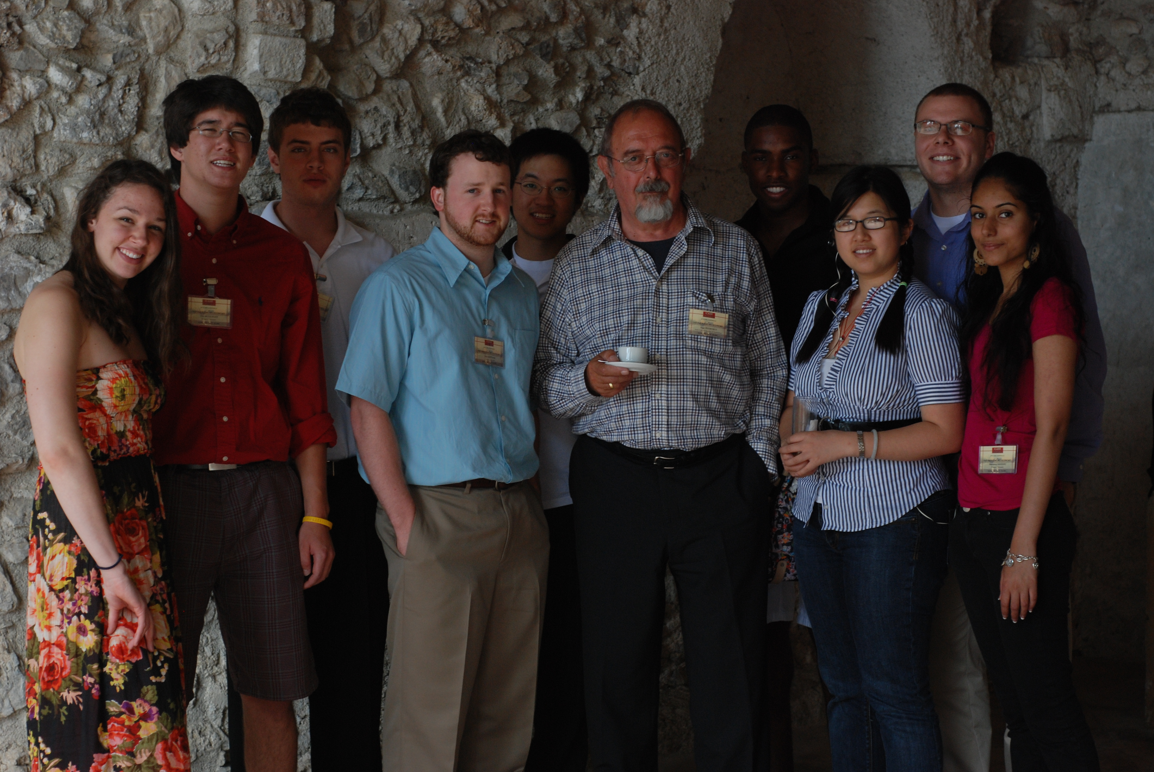 Team Biofuels with Ingo Potrykus, inventor of golden rice